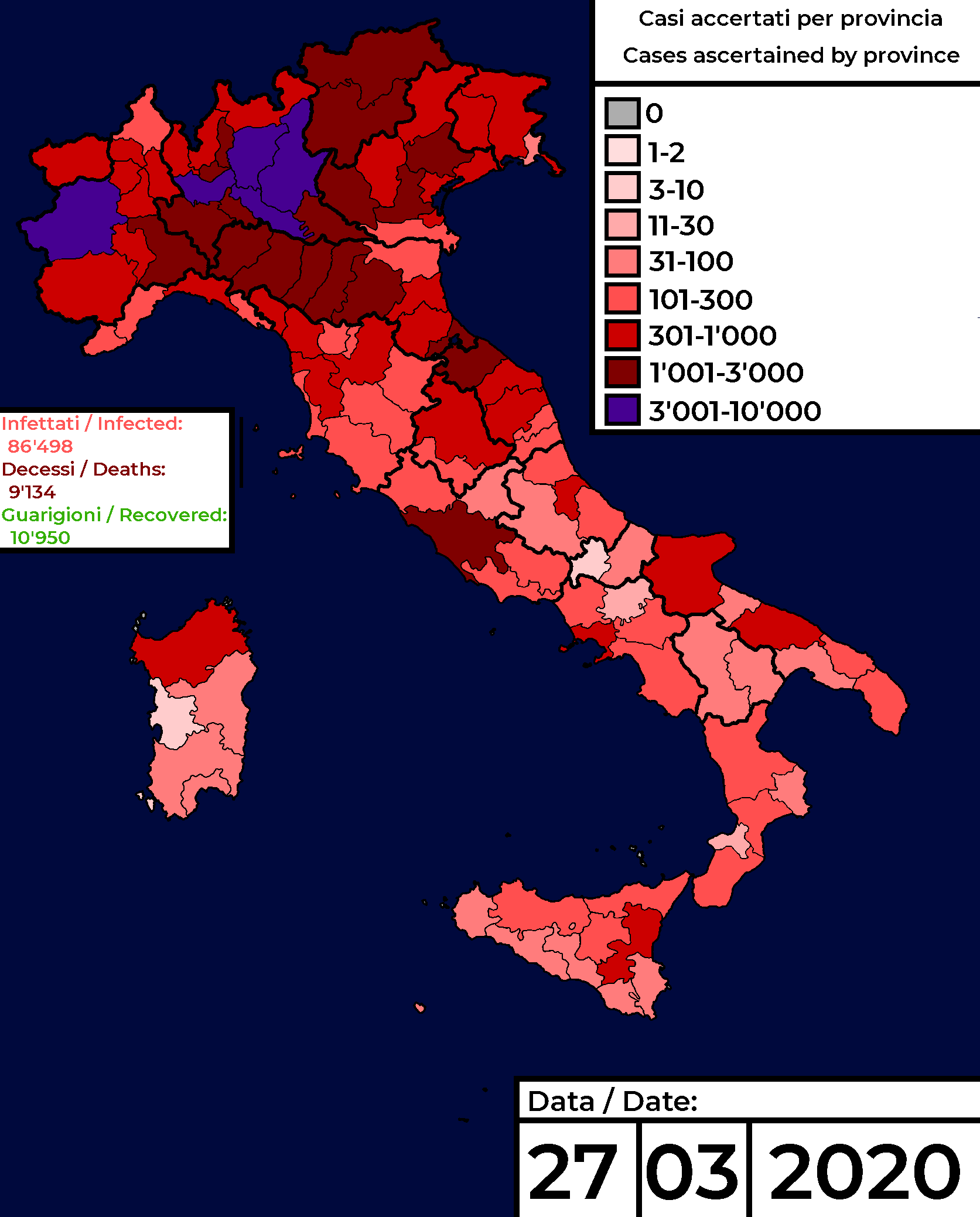 The map shows the spread of Coronavirus COVID-19 in Italy by province, updated to 27 March 2020.